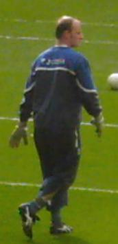 English goalkeeper Michael Oakes at Wembley.